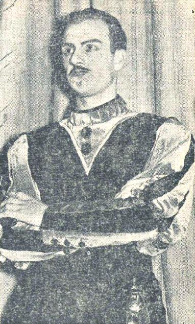 Zlatko Šugman (1932-2008), Slovene actor